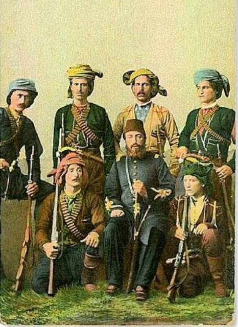 Çürüksulu Ali Pasha and Ottoman Georgian and Laz peoples. Pasha was a descendant of the Georgian noble family of the Tavdgiridze.